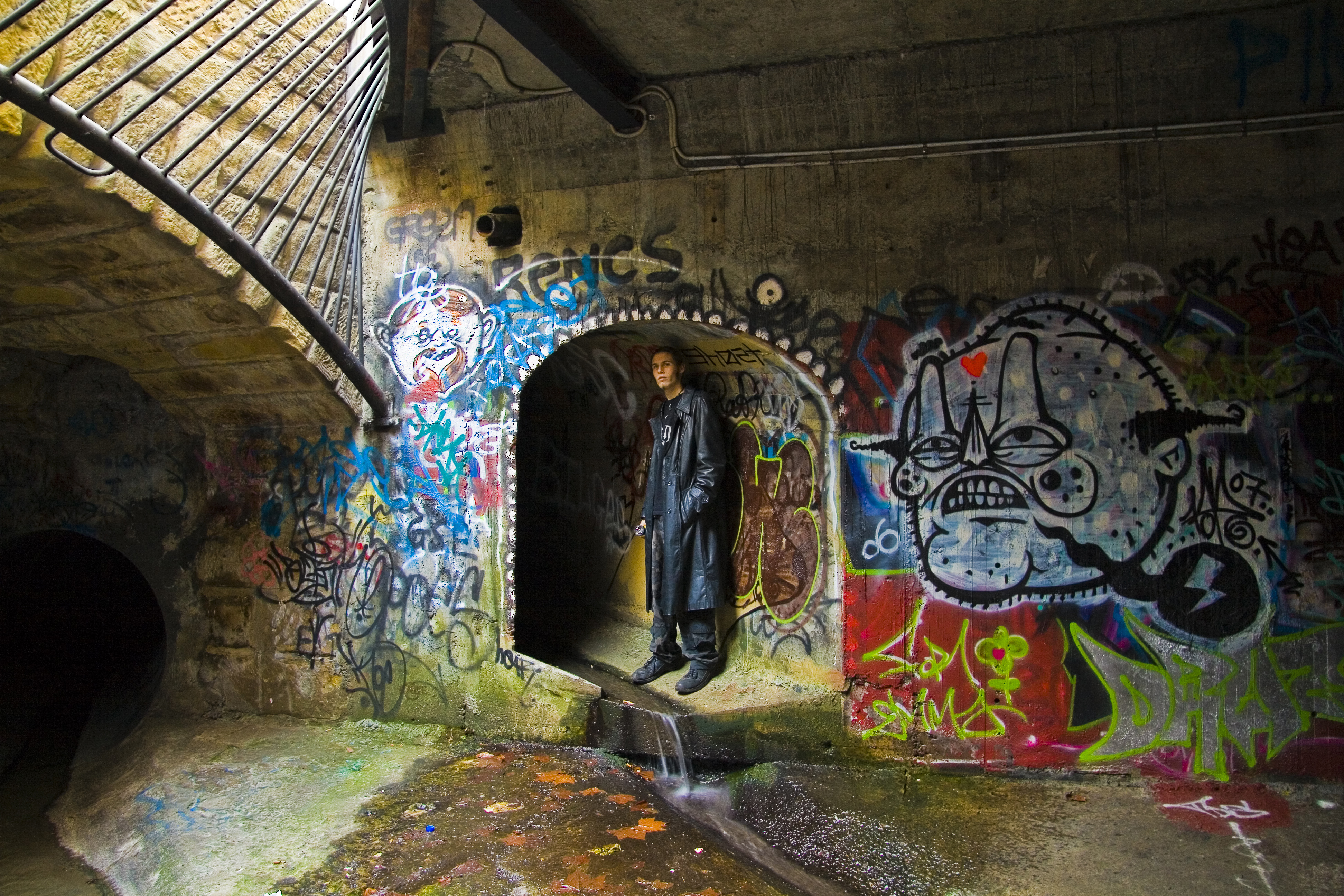 An urban explorer under Hobart, Tasmania, Australia.